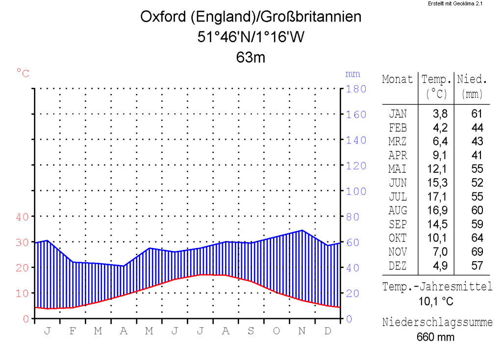 climate chart in the format by Walter and Lieth, metric, °Celsisus and millimeters, made with Geoklima 2.1